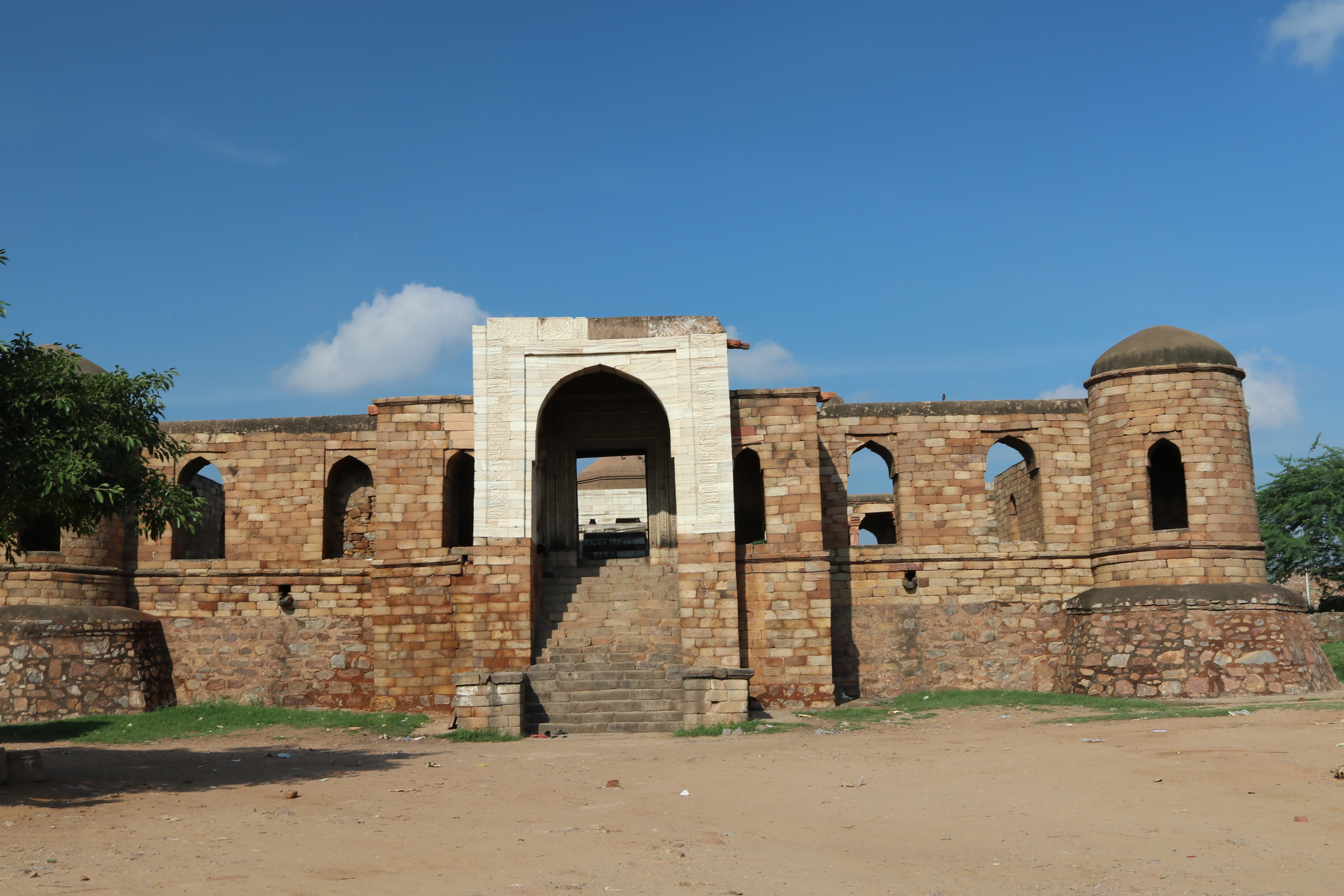 Tomb of Sultan Ghari Аҧсшәа: सुल्तान घारी मकबरे का मुख्य प्रवेश द्वार